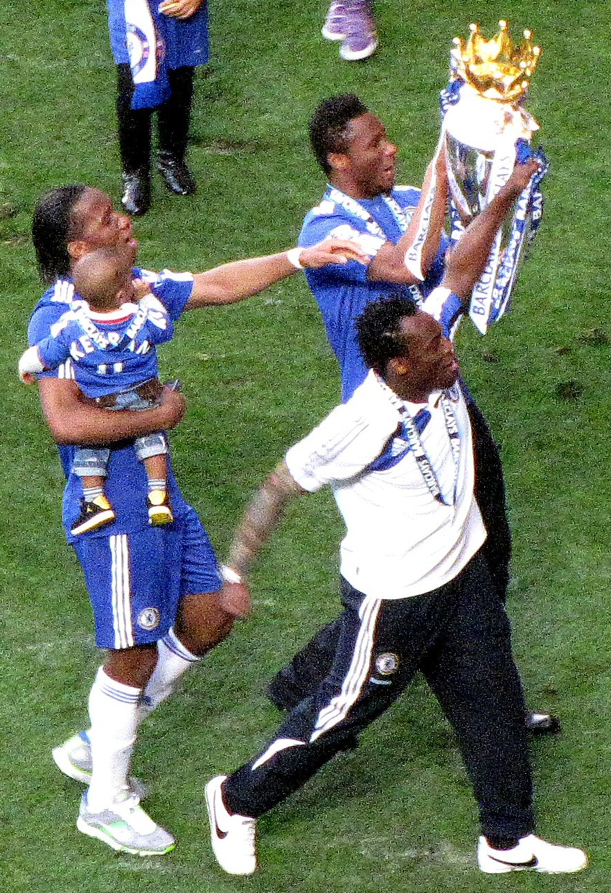 Chelsea players celebrate winning the 2009/10 Premier league title